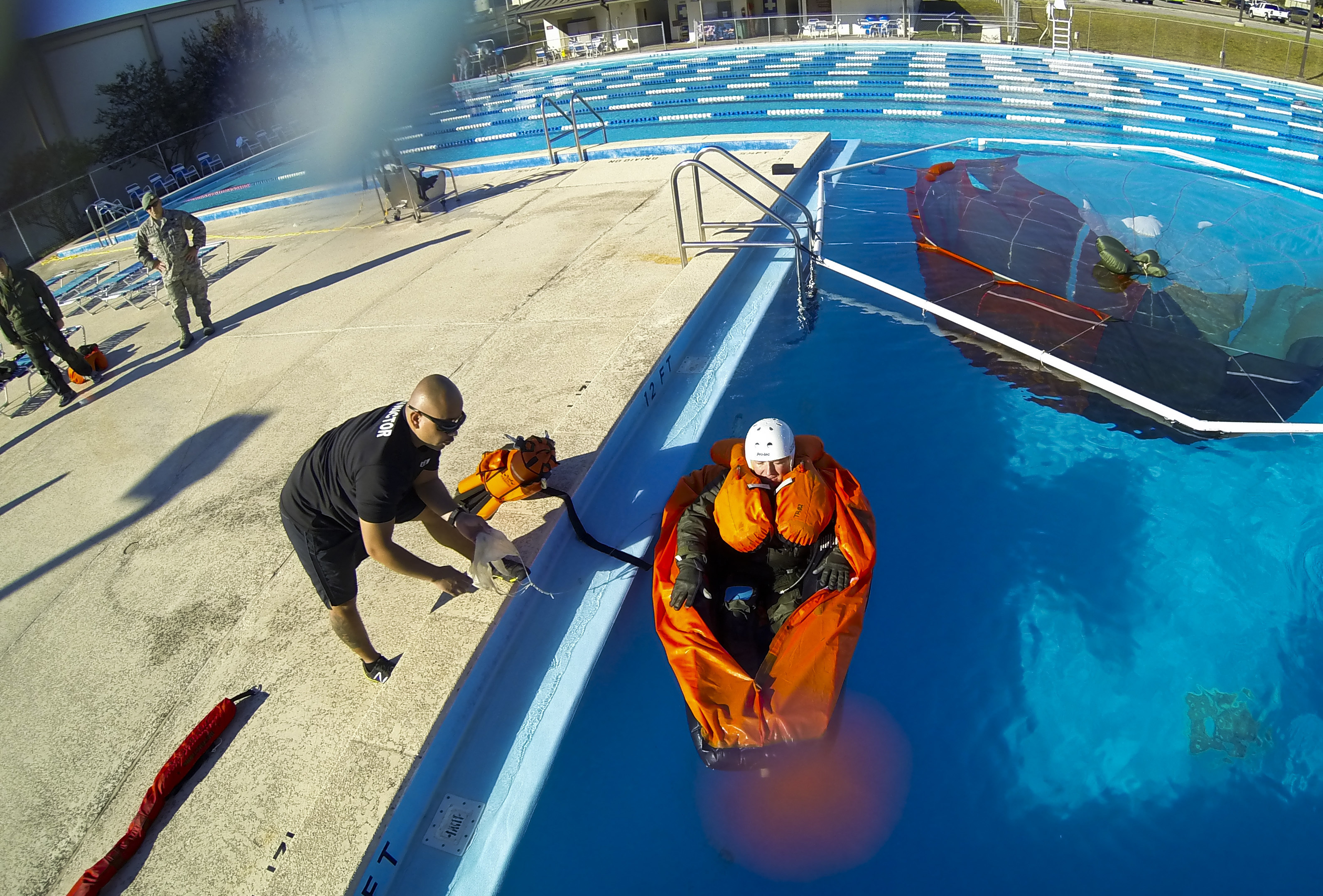 Staff Sgt. Edwin Portan, 33rd Operations Support Squadron F-35 Lightning II aircrew flight equipment continuation training instructor, questions Lt. Col. Ben Aronhime, 56th Training Squadron F-35A Lightning II pilot, about proper procedures while in a life raft during evaluations at a water survival class on Eglin Air Force Base, Fla., Oct. 31, 2014. Pilots attending F-35 water survival training are placed in simulated scenarios to provide them with the knowledge they need if they were to eject over water. The 33rd Operations Support Squadron F-35 Lightning II aircrew flight equipment shop incorporated some training elements from previous water survival training programs and developed training tools and techniques to account for the new equipment unique to the F-35 program. (U.S. Air Force photo/Staff Sgt. Marleah Robertson)